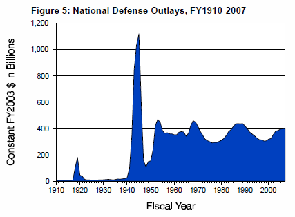 National Defense Outlays, FY1910-2007